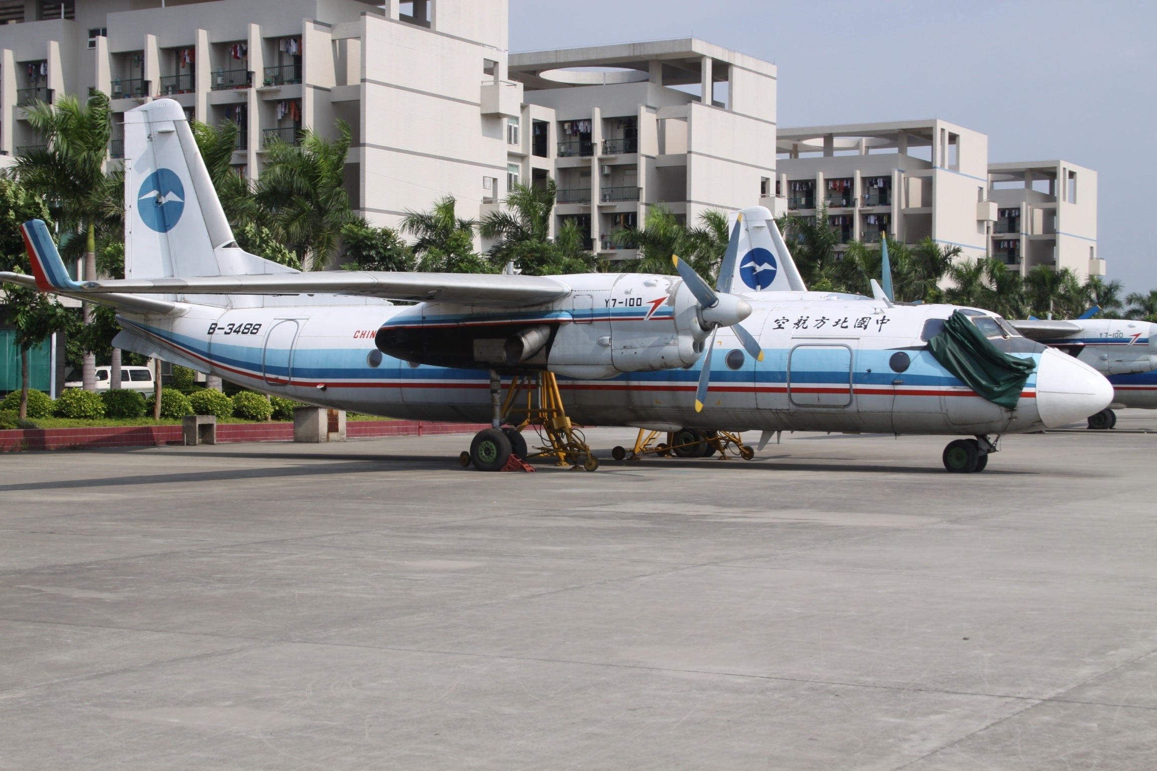 At Guangzhou Baiyun